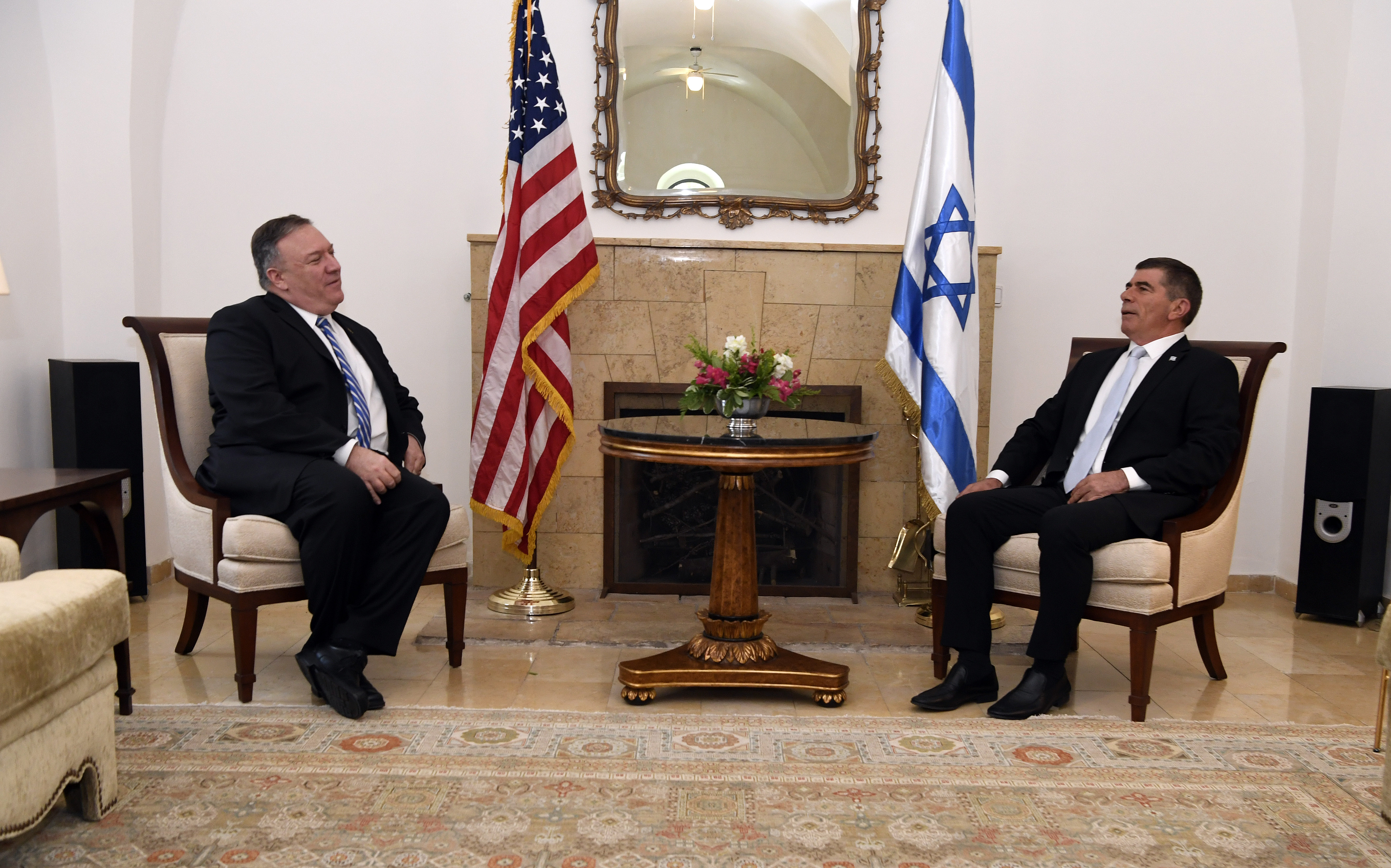 U.S. Secretary of State Michael R. Pompeo meet with Gabi Ashjkenazi, on May 13, 2020.